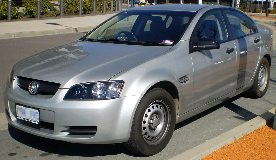 ACT Police Holden Commodore unmarked sedan with LED dash lights.